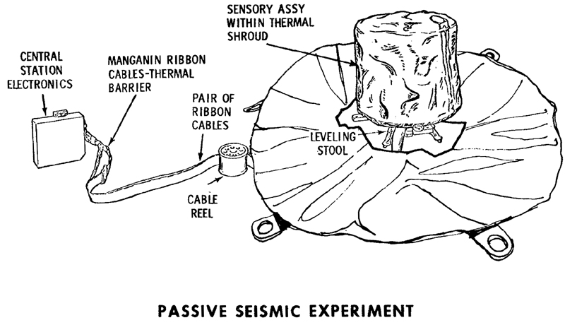 Diagram of the Passive Seismic Experiment. Part of the ALSEP.